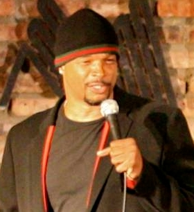 Damon Wayans at the Improv comedy club in Houston